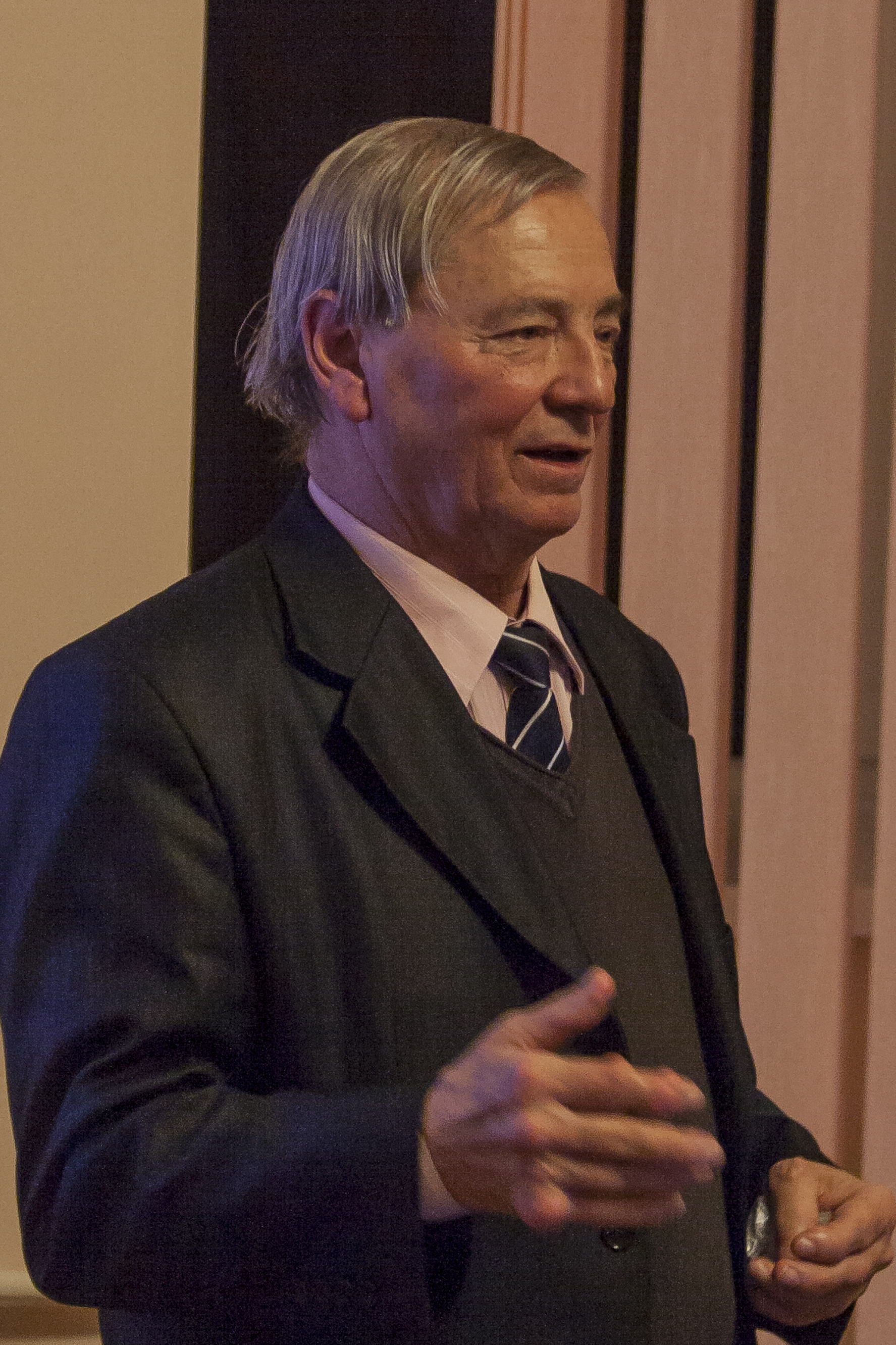 Klym Churyumov, Ukrainian astronomer during his popular lecture in Astronomy Observatory of Kyiv Shevchenko National University